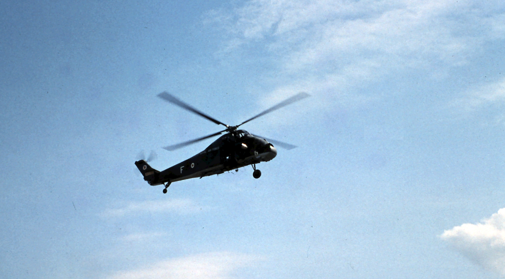 The squadron Red Arrows during the Air show of the Royal Air Force in May 1967 on the military airbase Gütersloh - actually a Westland Wessex HC2 of No. 18 Squadron RAF